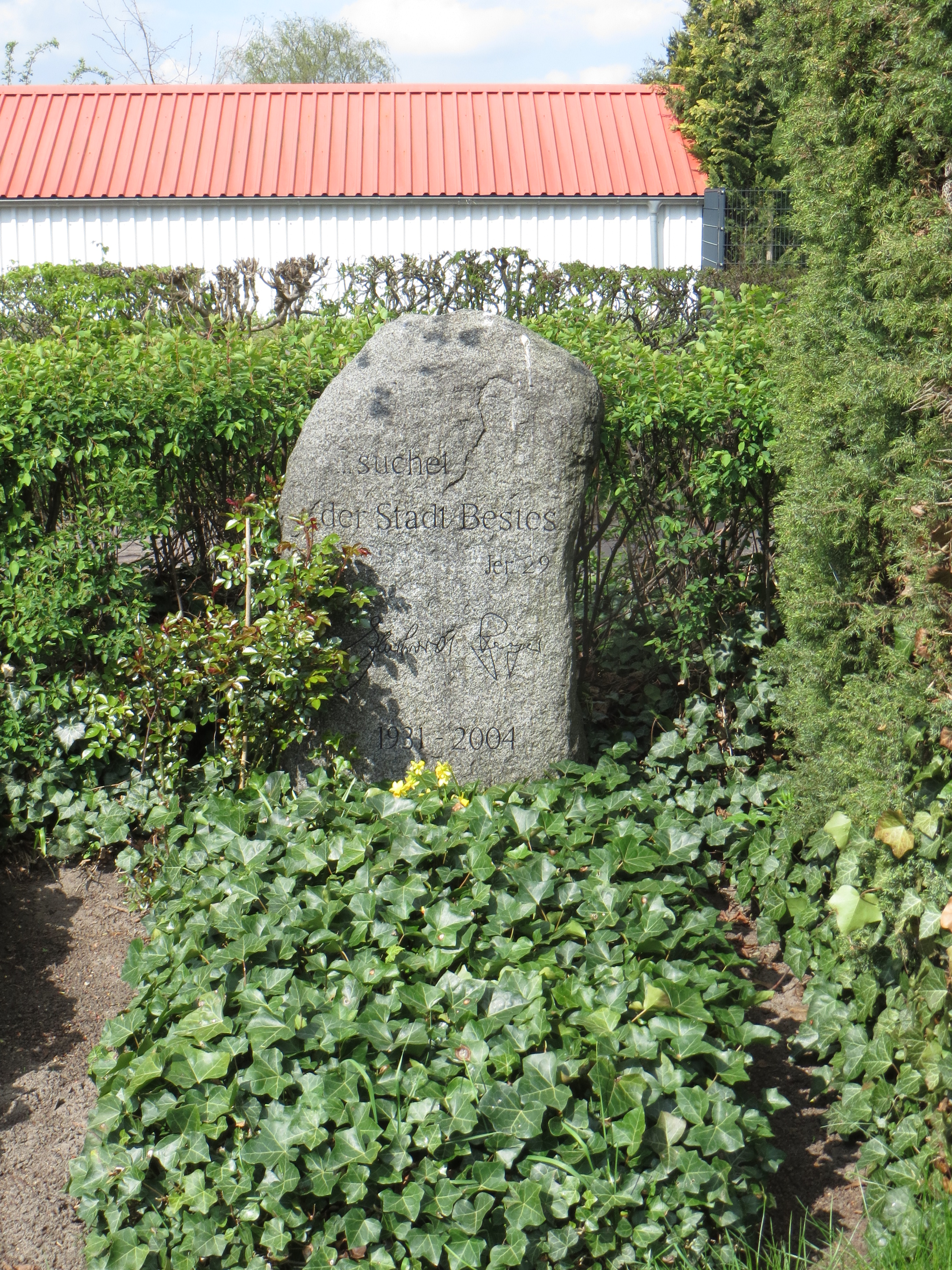 Güstrow Cemetery